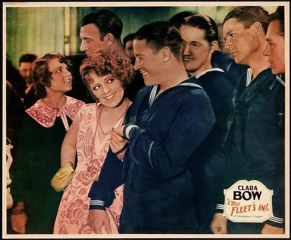 Lobby card from the 1928 film The Fleet's In. Pictured are Clara Bow and Jack Oakie.